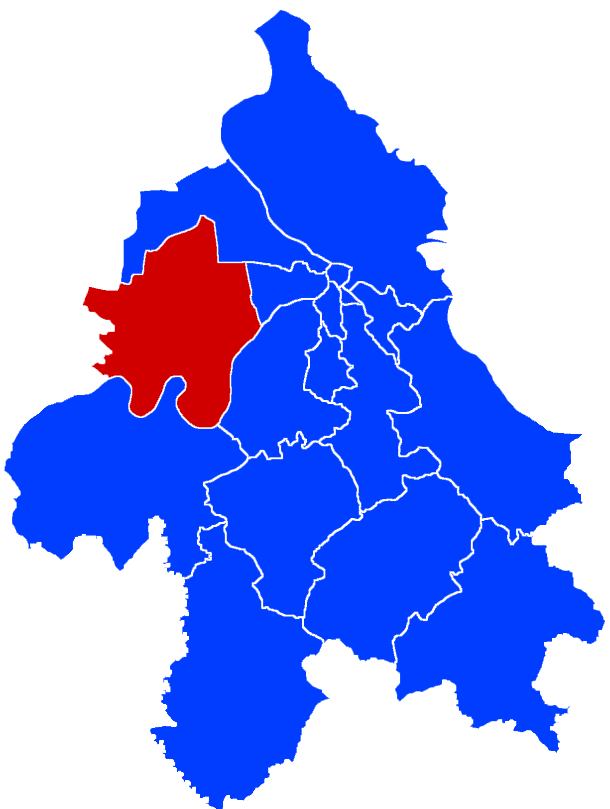 The graphical representation of the municipality of Surčin within the city of Belgrade